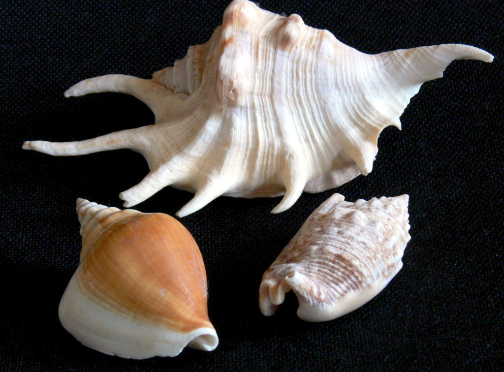 Photo taken by User:Haplochromis